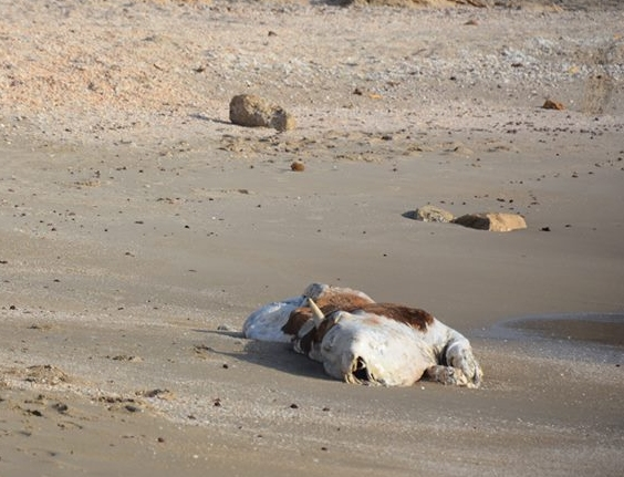 calf that was thrown overboard from a live export ship, swept to Nachsholim beach, Israel